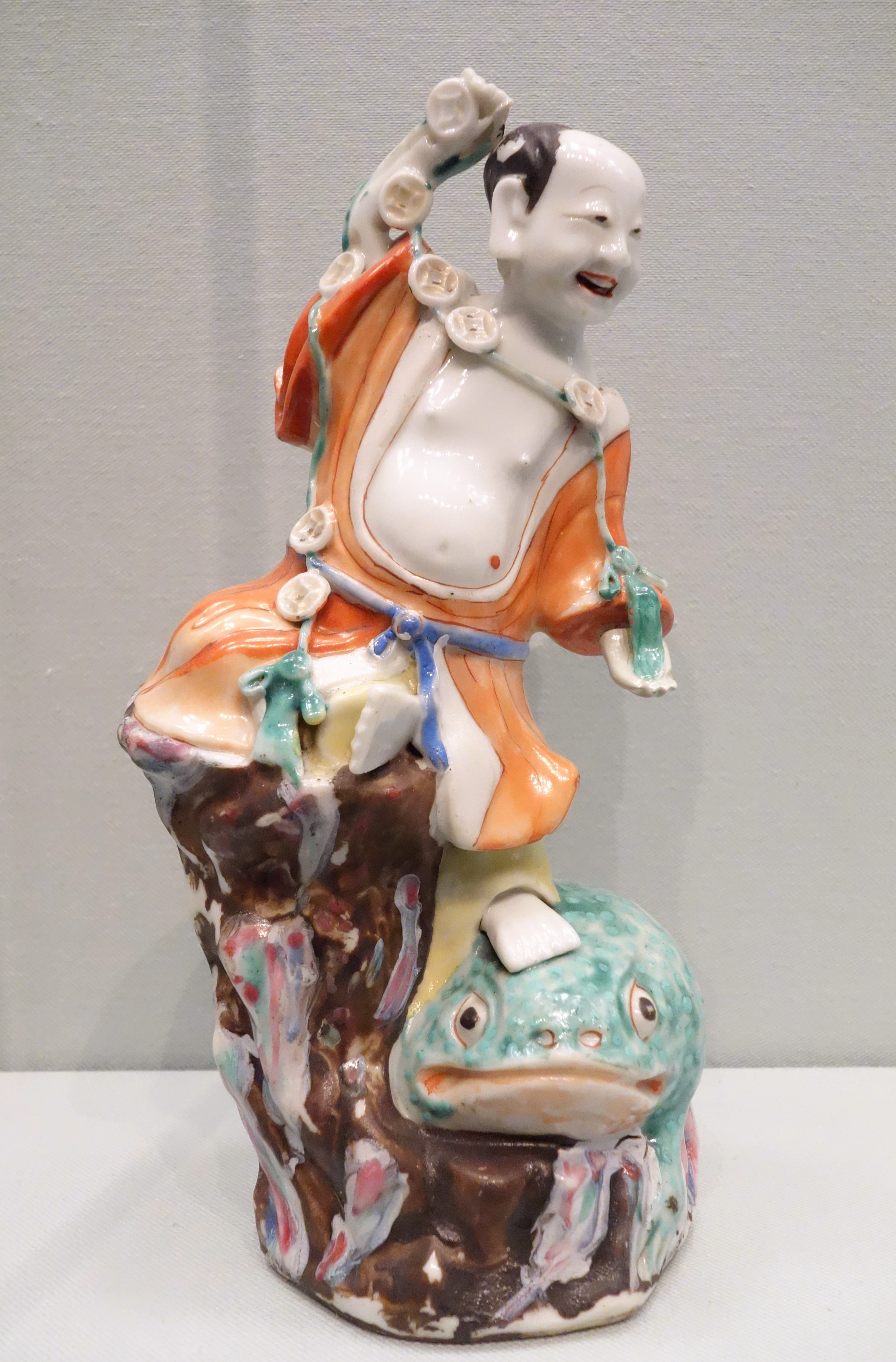 Exhibit in the Asian Art Museum of San Francisco, San Francisco, California, USA. This artwork is in the public domain because the artist died more than 70 years ago.